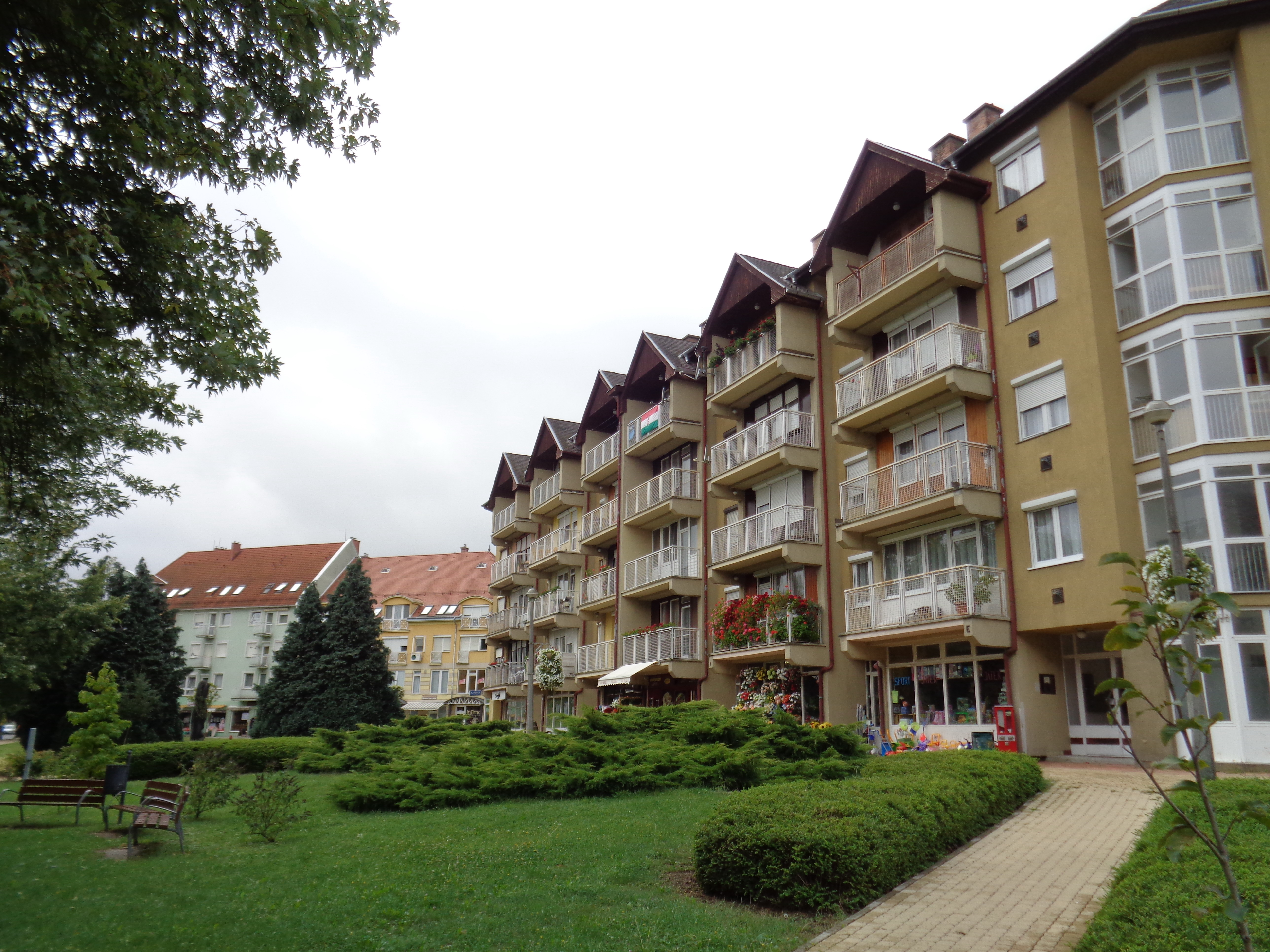 Lenti, Hungary - buildings in the town centre. Kossuth út 1